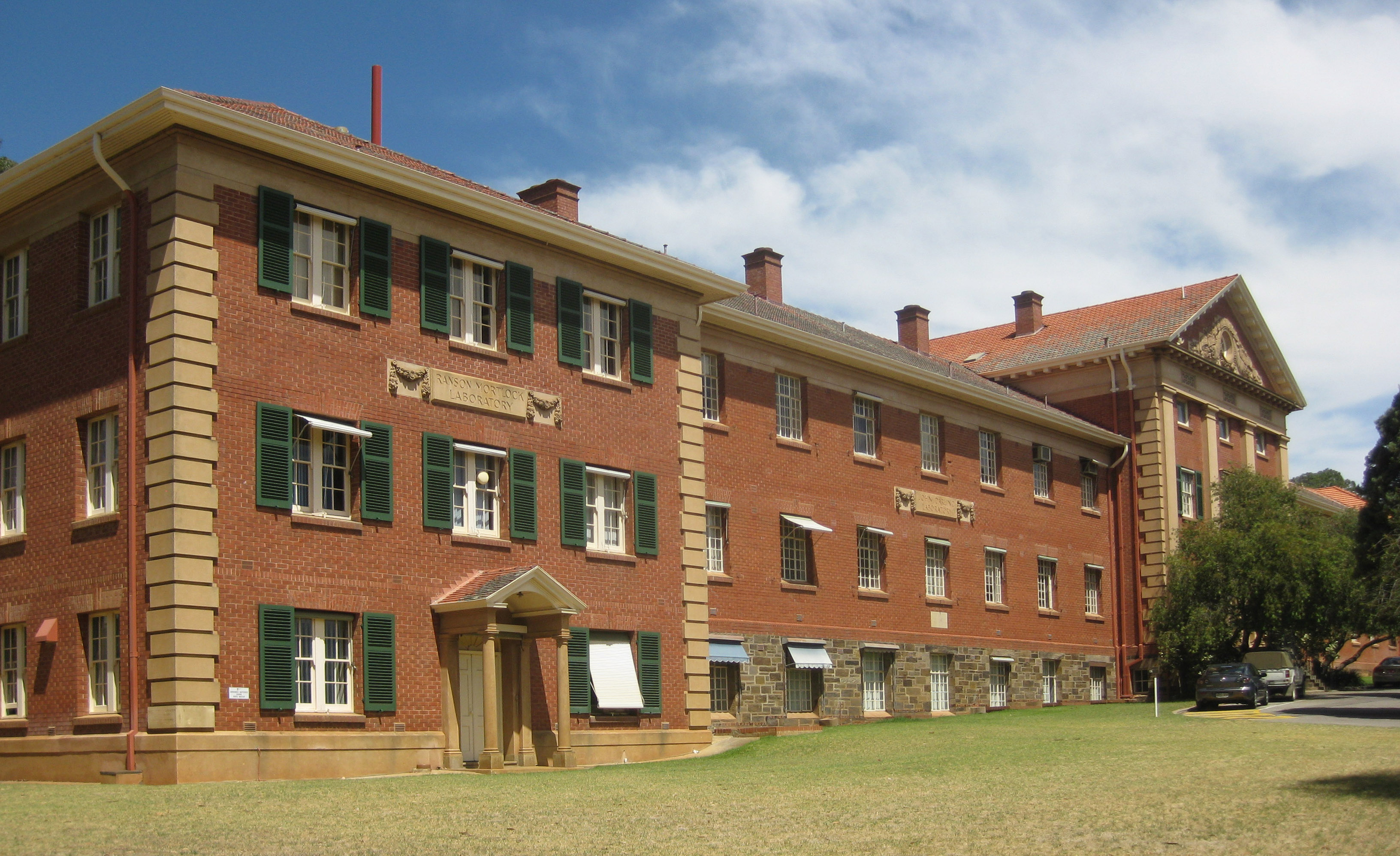 The Main Building of the Waite Agricultural Research Institute at the Waite Campus of the University of Adelaide, South Australia. Designed by Woods, Bagot, Laybourne Smith & Jory (today known as Woods Bagot).